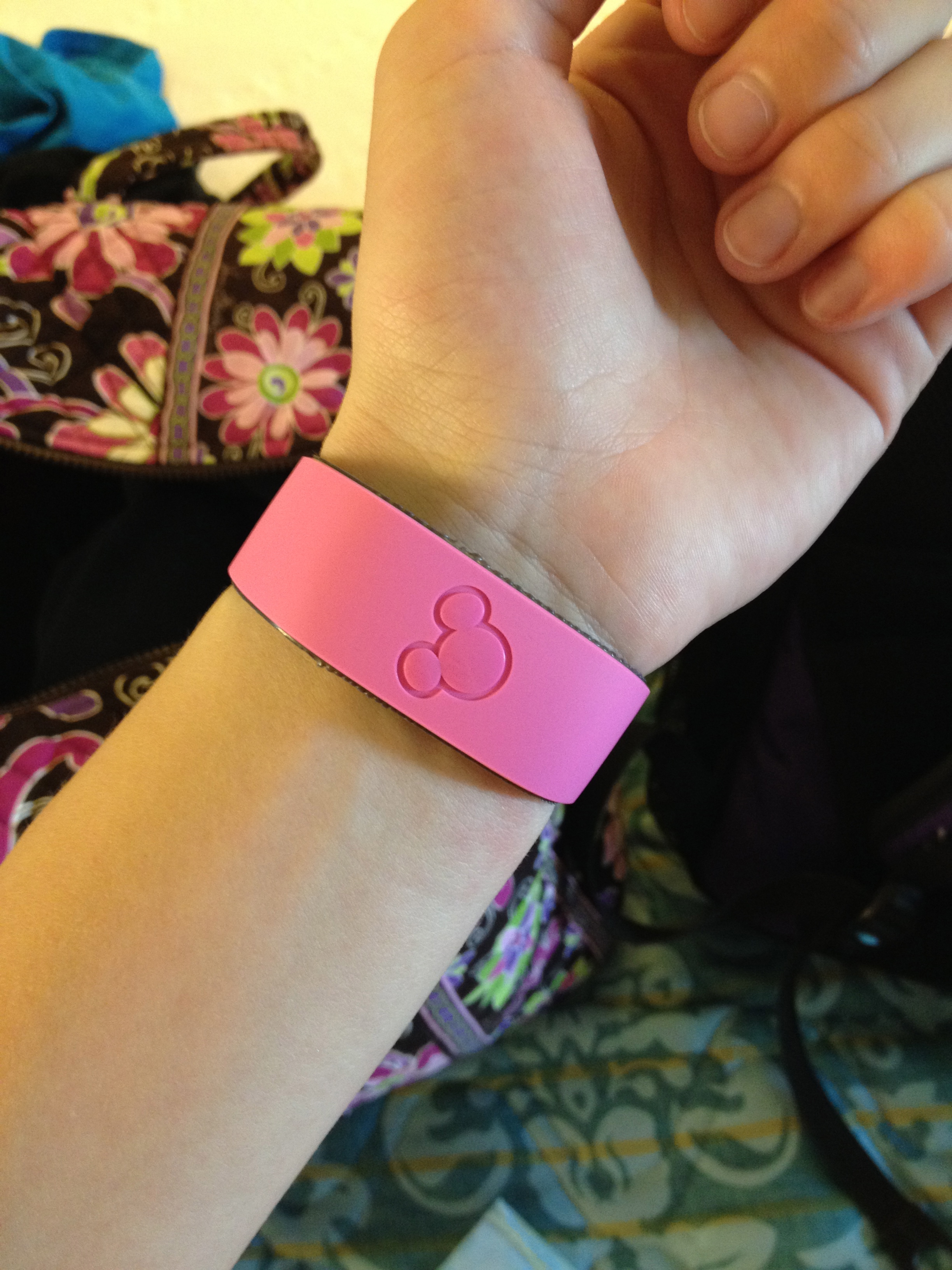 A new plastic band at Disney World that acts as your ticket, FastPass, credit card, hotel room key, and more.